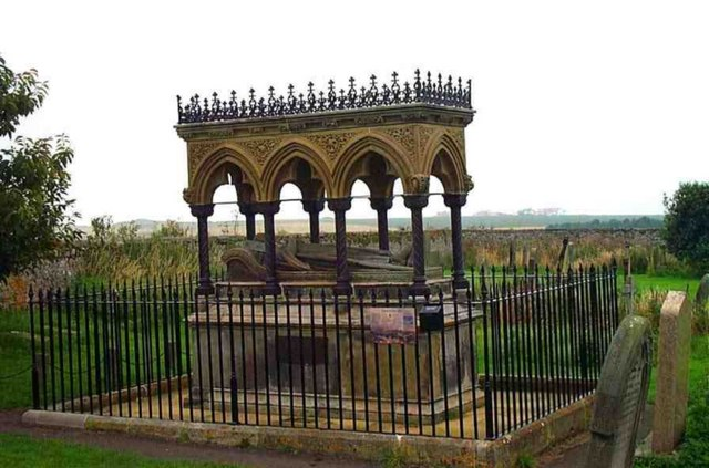 Grace Darling memorial, Bamburgh Churchyard. This is the most famous monument in Bamburgh, the memorial to Grace Darling, who, in 1838, with her father, rowed out in mountainous seas from the Longstone lighthouse on the Farne Islands, to rescue the crew of The Forfarshire, which had foundered on the rocks a mile away. She was 23 years of age. She died 4 years later, aged 27, from tuberculosis. She is buried in the family plot nearby.